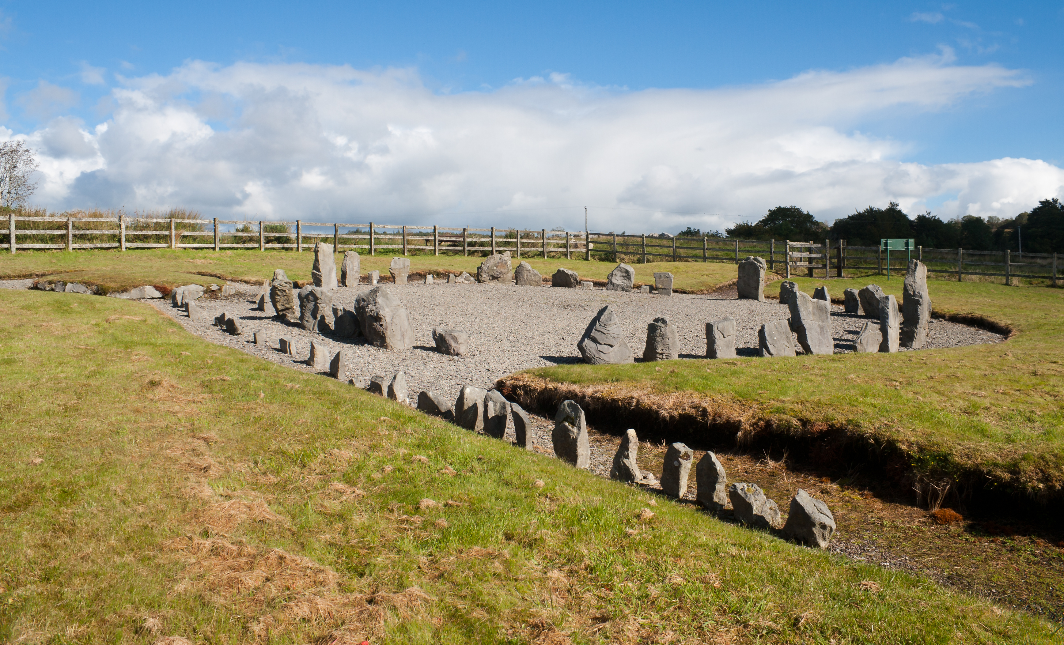 South-west view of the Drumskinney Stone Circle along with a circular cairn (to be seen in the upper left) and the alignment, pointing to the cairn.